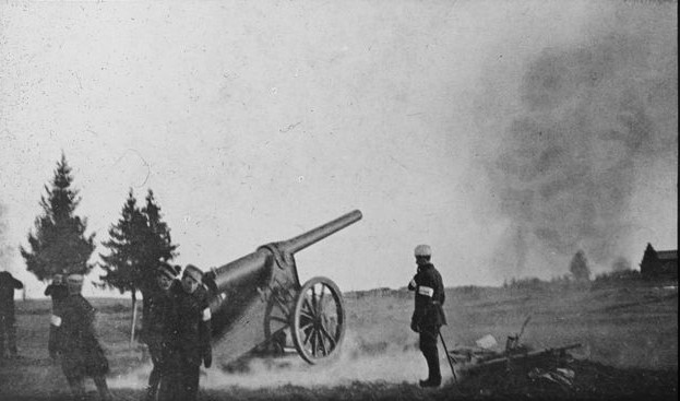 White Army heavy artillery in Lempäälä, second lieutenant von Essen in right.